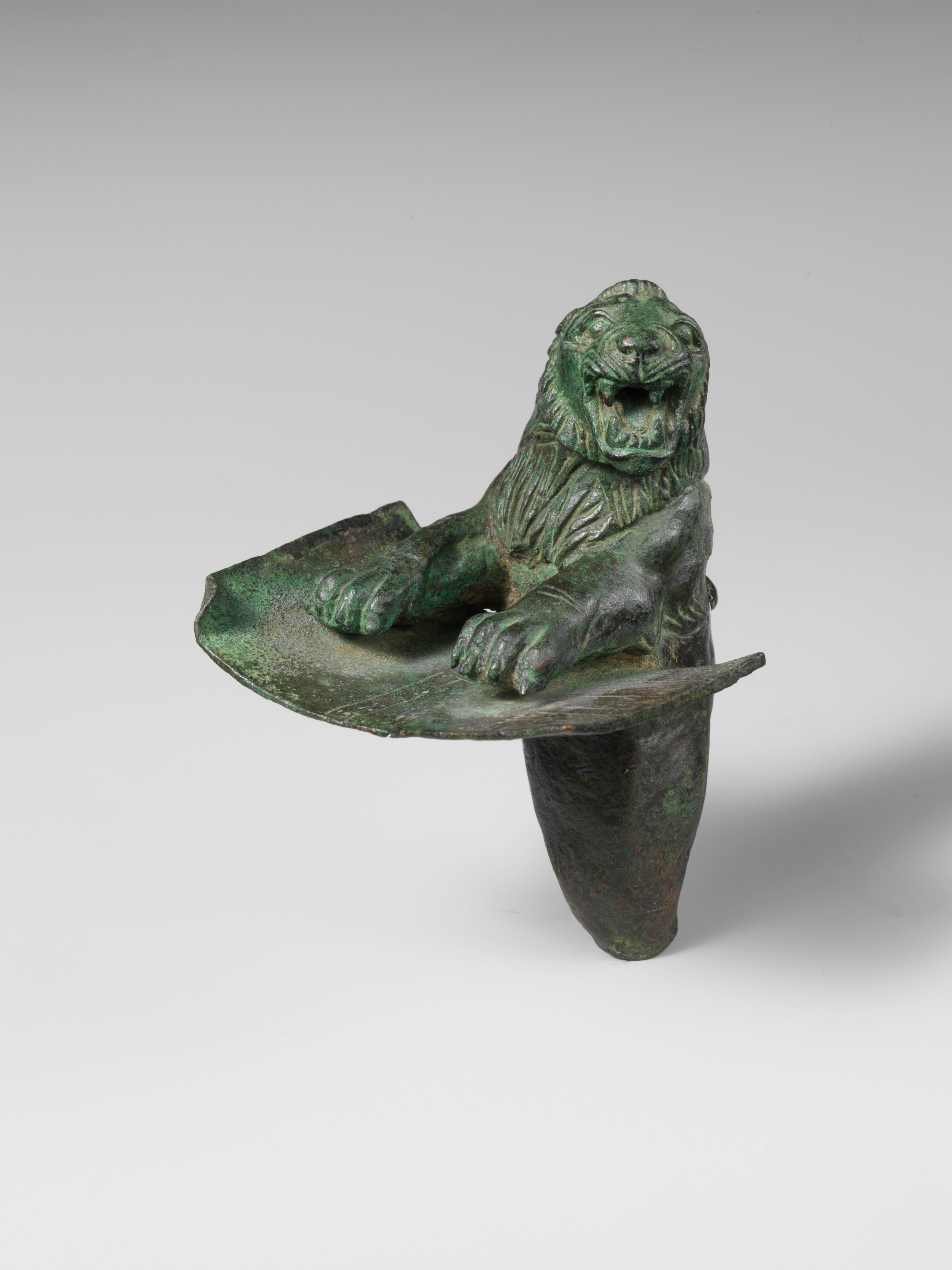 Hurrian; Foundation peg; Metalwork-Sculpture-Inscribed